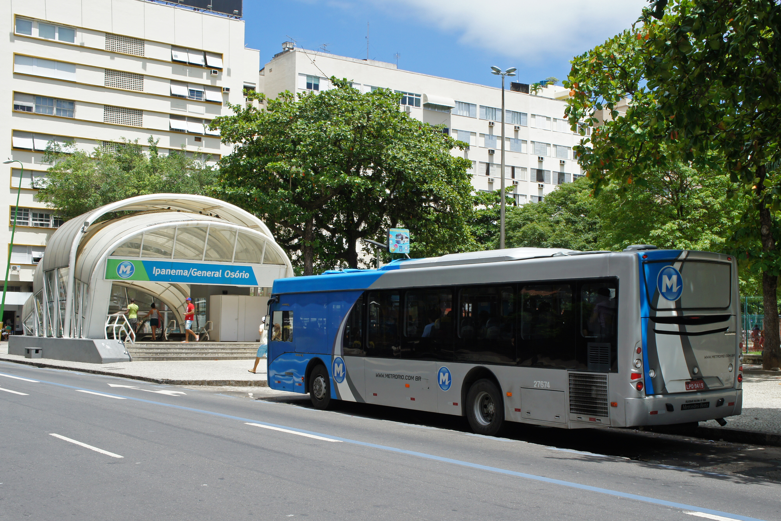 Old Entrance to the Ipanema/General Osório Station, Rio de Janeiro Metro, Brazil. The bus is part of the Surface Metro Bus Service integrated with the rail metro service